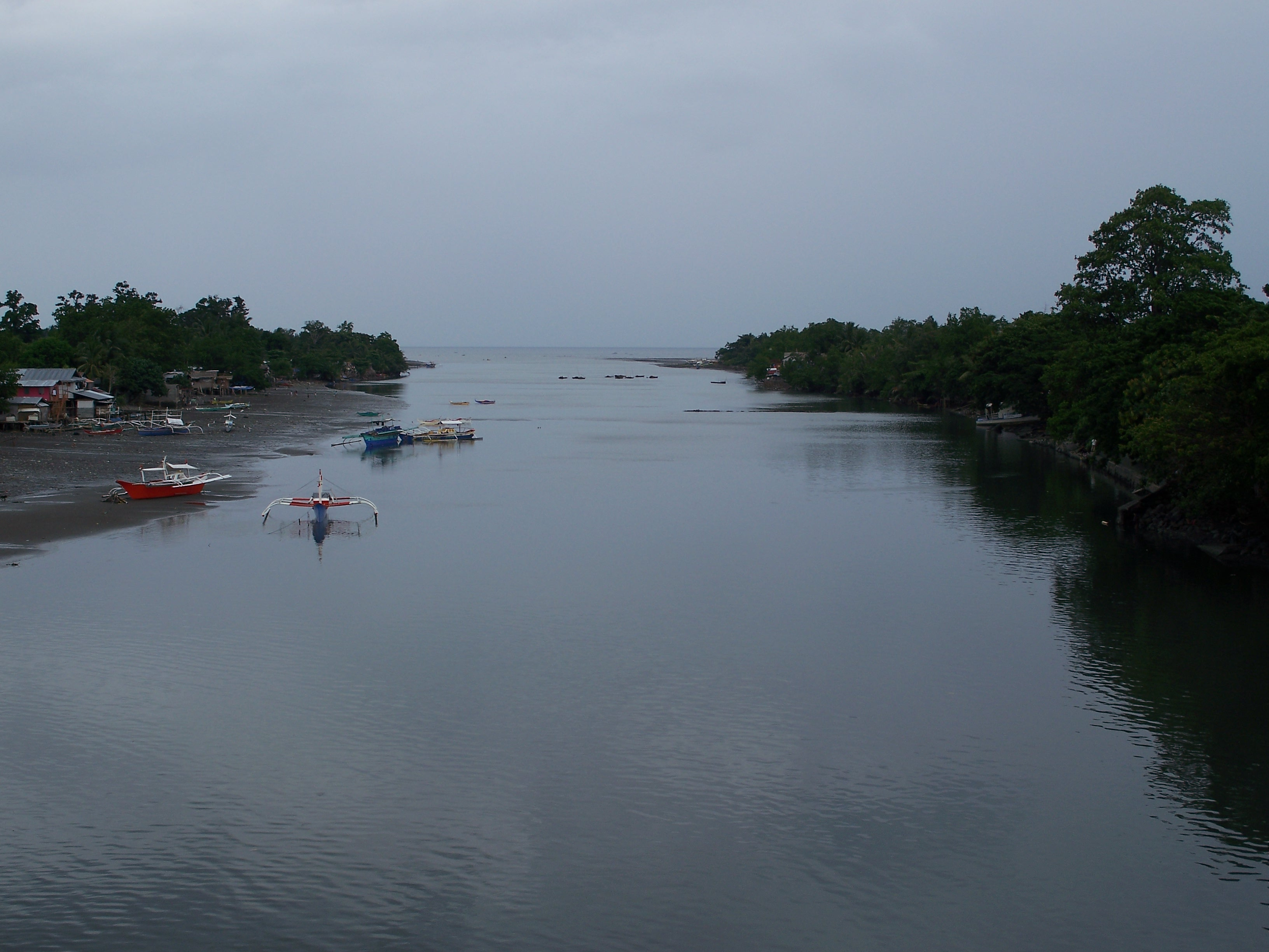 Mouth of the Davao River in Davao City, opening into the Davao Bay